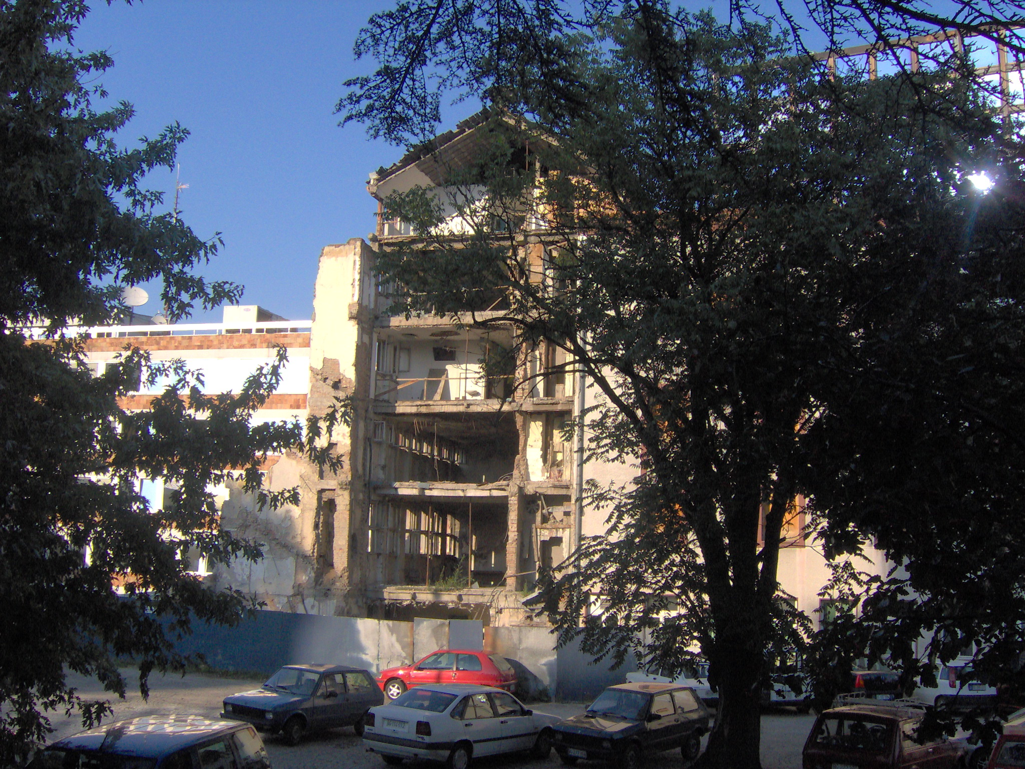 RTS building bombed, Belgrade, Serbia